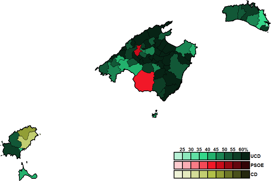 Balearic Islands Spanish Congress District 1979 election municipal vote share